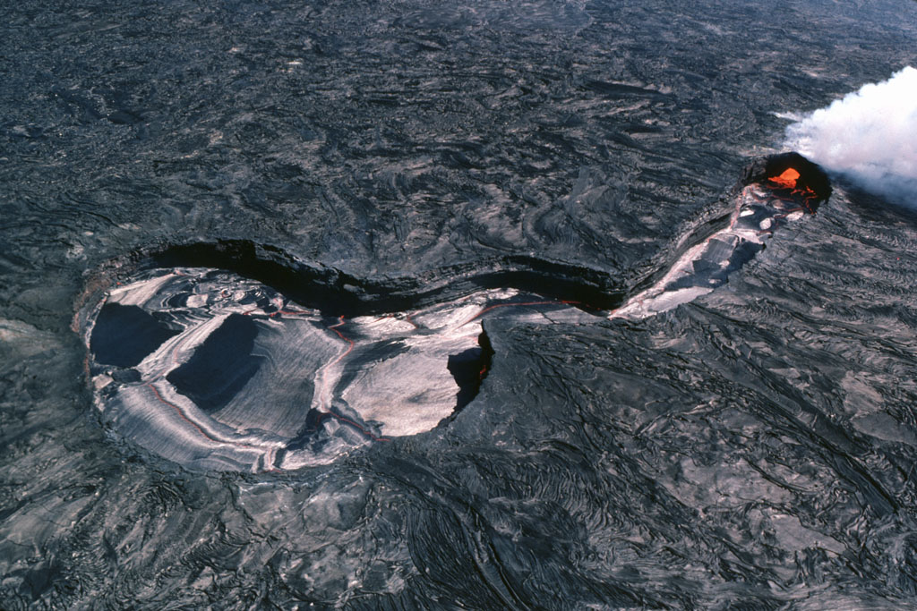 Aerial view of Kupaianaha lava pond. A vent beneath the broad area to the left supplies lava to the pond, which then flows down the long neck to the right. A lava tube at the end of the neck carries lava downslope. The entrance to the lava tube is visible at the end of the neck.